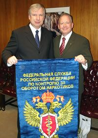 Viktor Cherkesov (left) and John P. Gilbride